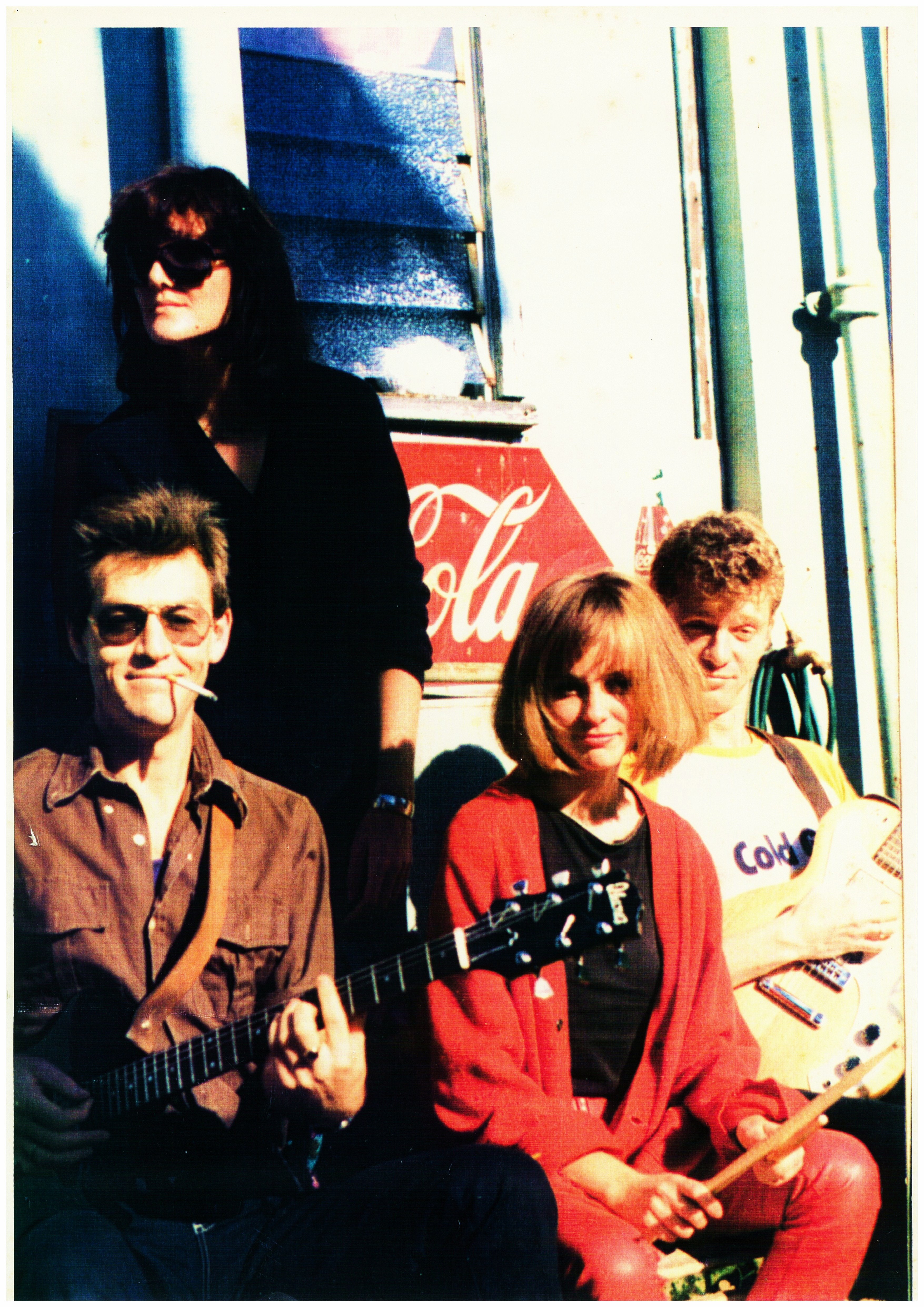 XL Capris outside George's rehearsal room 1979, Balmain, NSW, Australia